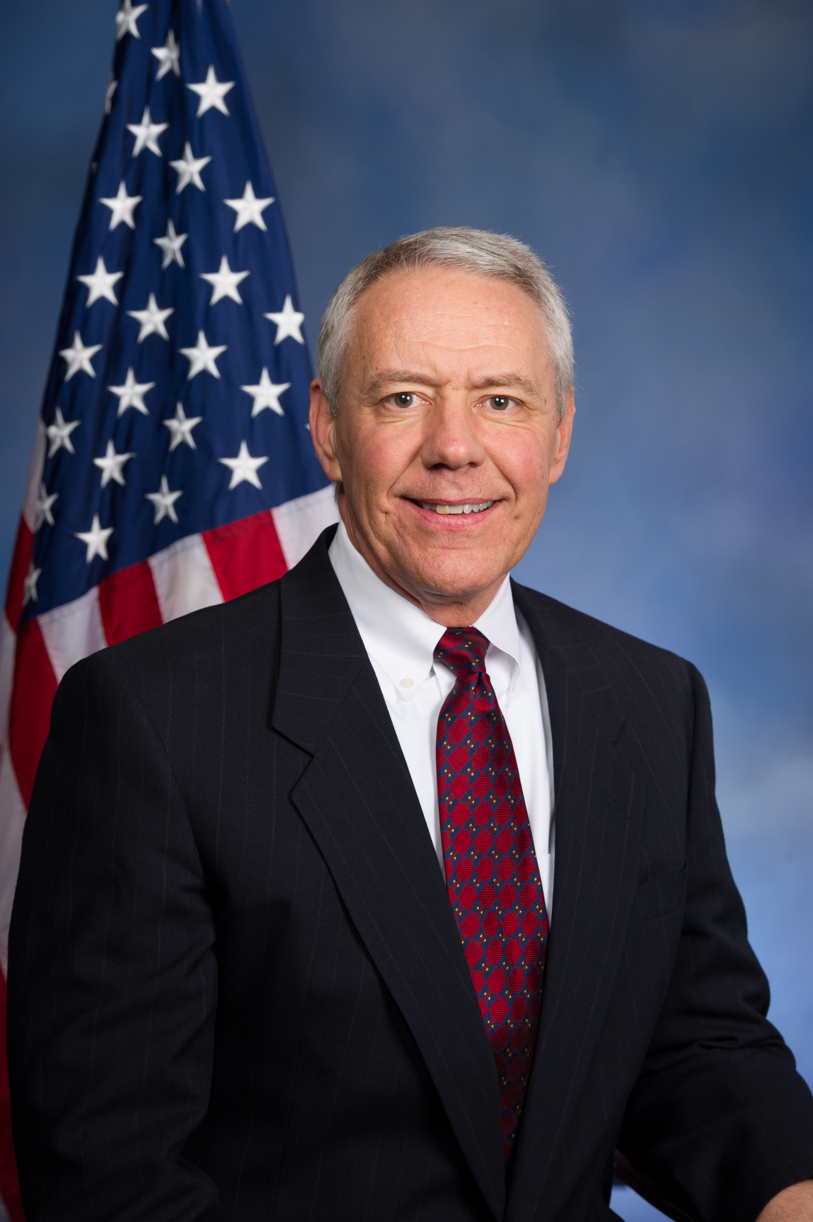 Ken Buck official congressional portrait, 114th Congress